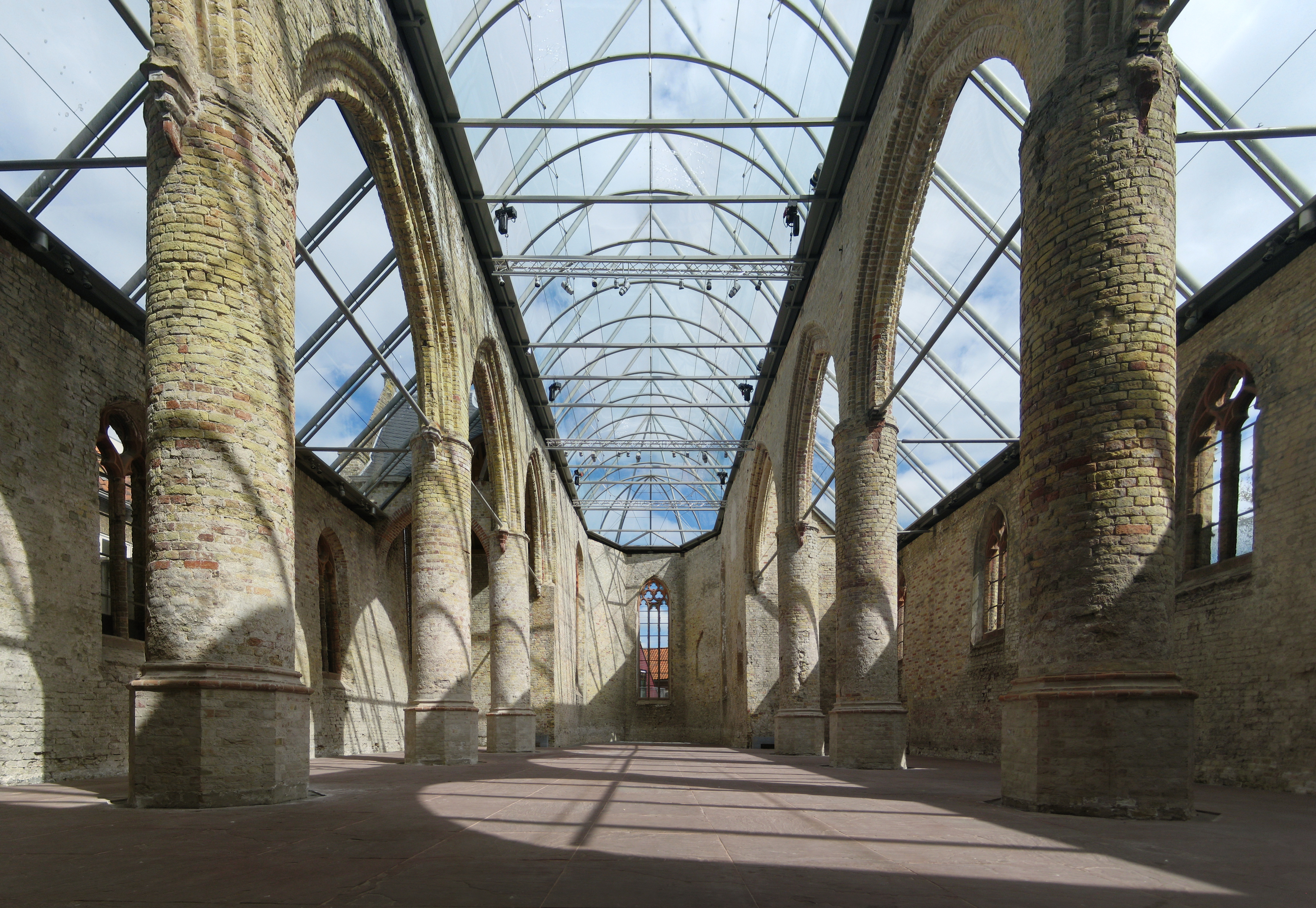 Interior of the thirteenth century Broerekerk in Bolsward, a city in the Dutch province of Fryslân.